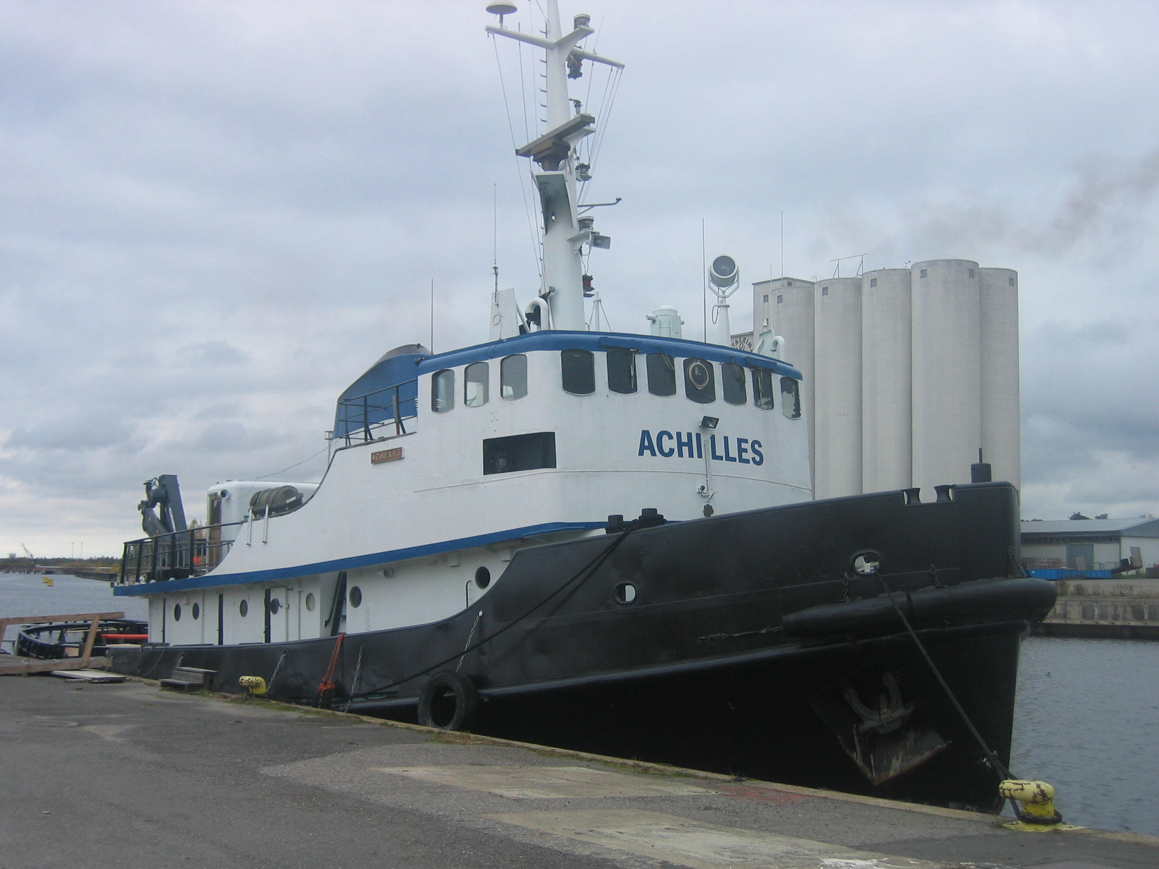 The former Swedish army's tugboat and icebreaker "Achilles" in the Toppila harbour in Oulu, Finland.